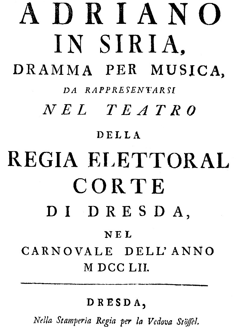 Johann Adolph Hasse - Adriano in Siria - titlepage of the libretto from 1752